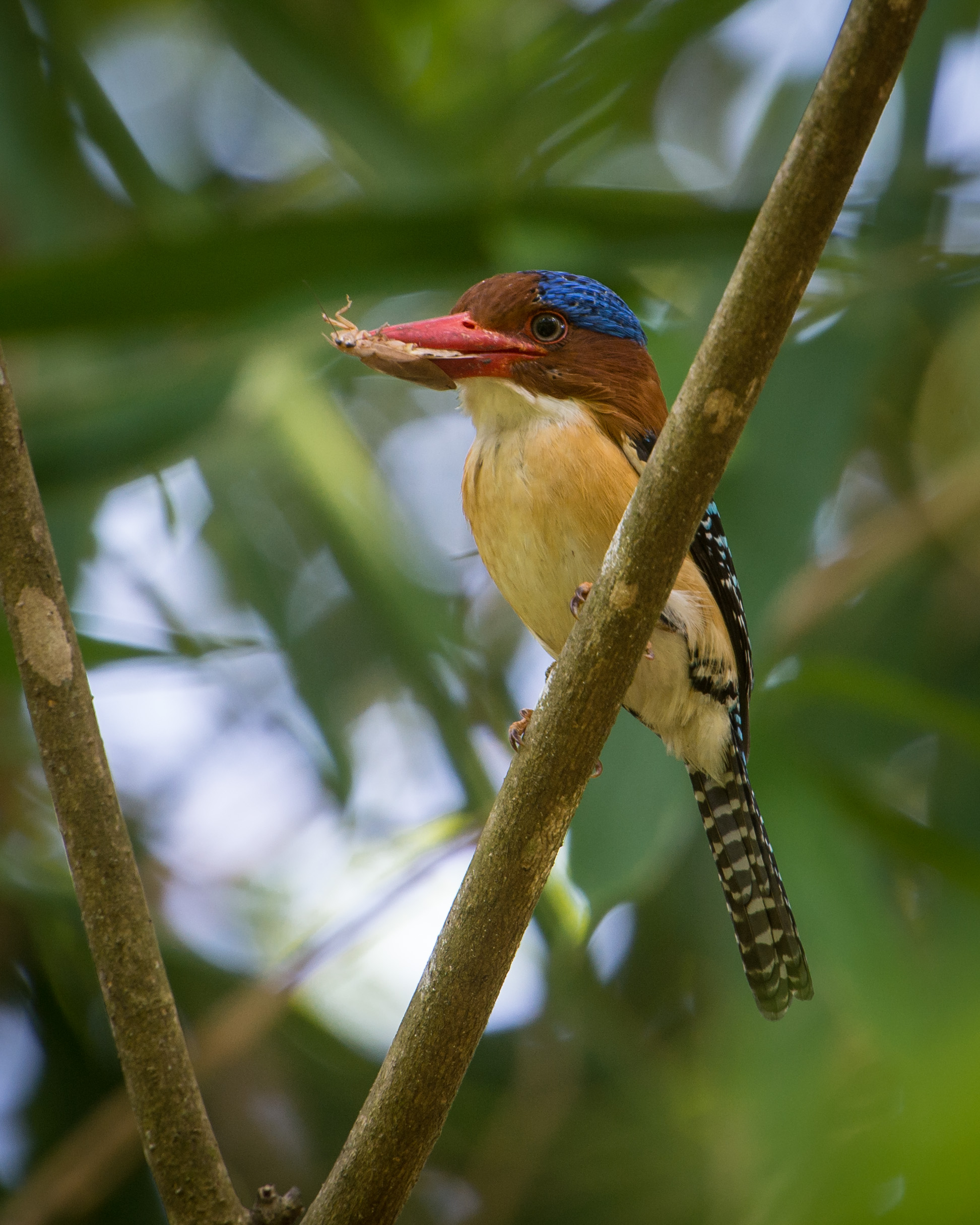 Male Banded Kingfisher (Lacedo pulchella) Kaeng Krachan National Park, Phetchaburi, Thailand.